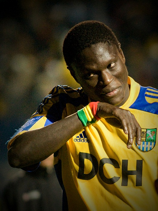 Papa Gueye is a Senegalese football player